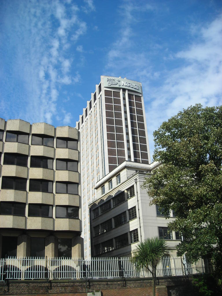 An image of St. George's House in Croydon. The former UK headquarters of Nestlé. This was taken from Queen's Gardens